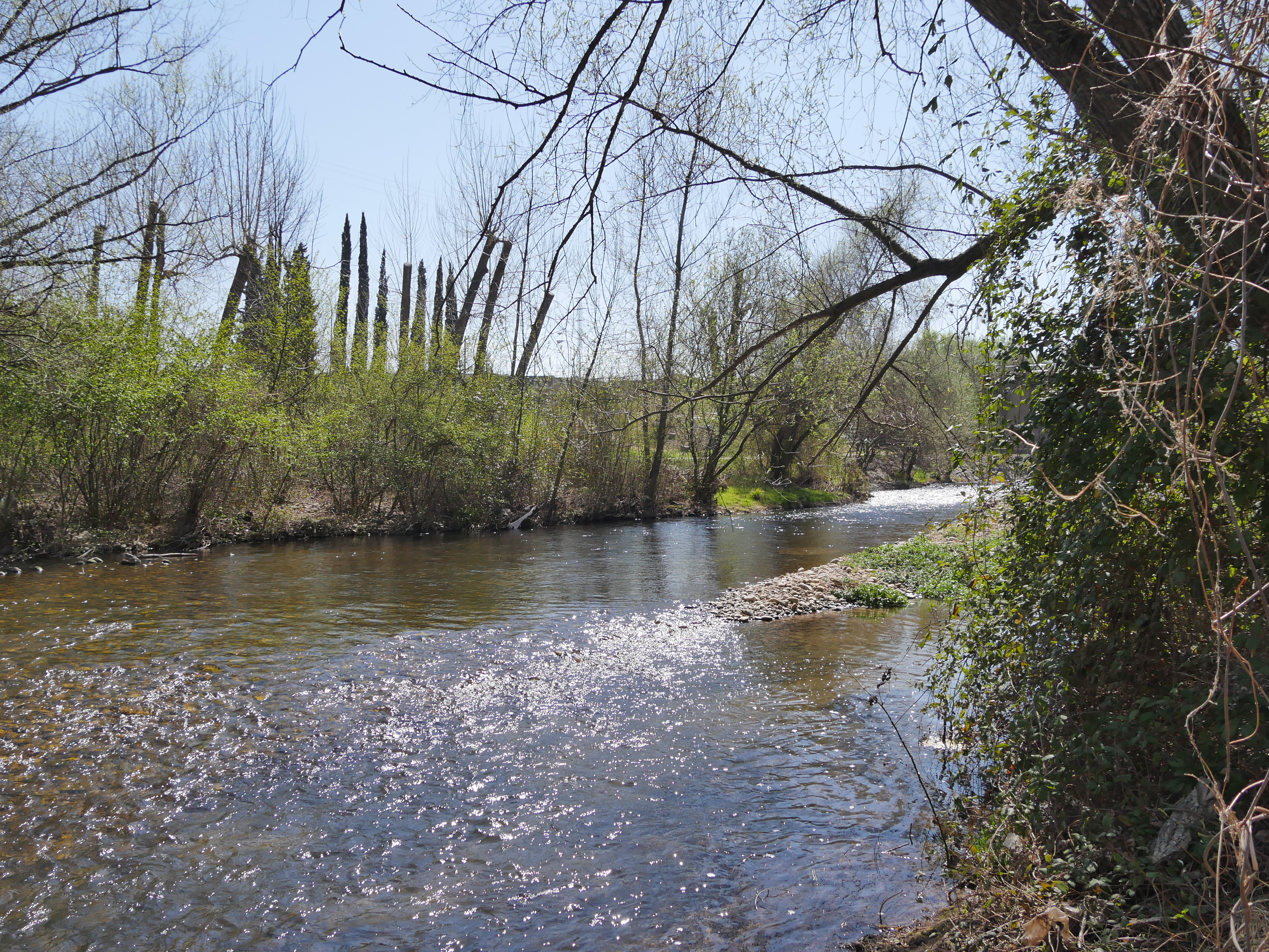 View from the left bank of the river Iregua, 105 meters down the N-232 Bridge in Logroño, approximate location of a now gone roman bridge.